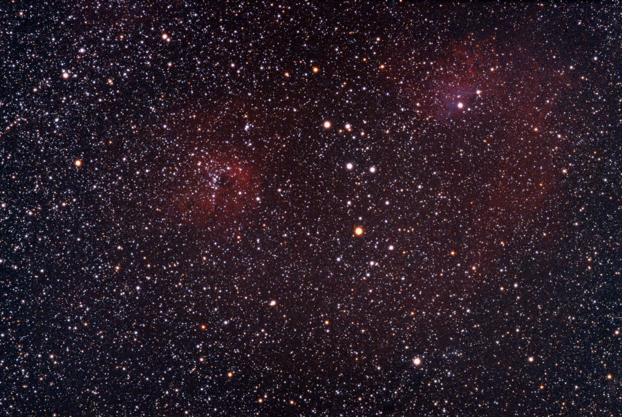 Flaming Star Nebula (IC 405 and IC 410 in Auriga), photographed at La Palma, Roque de los Muchachos (Degollada de los Franceses). Photo taken the following equipement: Camera/Telecope: Pentax SDHF 500 6.7/500 on GP/DX, tracing ST4 at 600mm (Sonnar 4/300 with 2x tele converter) Exposure: 40 min Film: Fuji 400 35mm (Push to 600 ASA) Scanner: Scan service Processing: Removed vignetting, colour and contrast correction. additional remark: faintest object visible at 6.5 mag